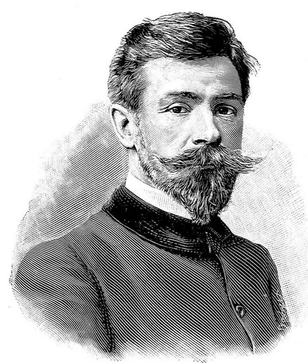 Portrait of Raymond Sudre in 1910